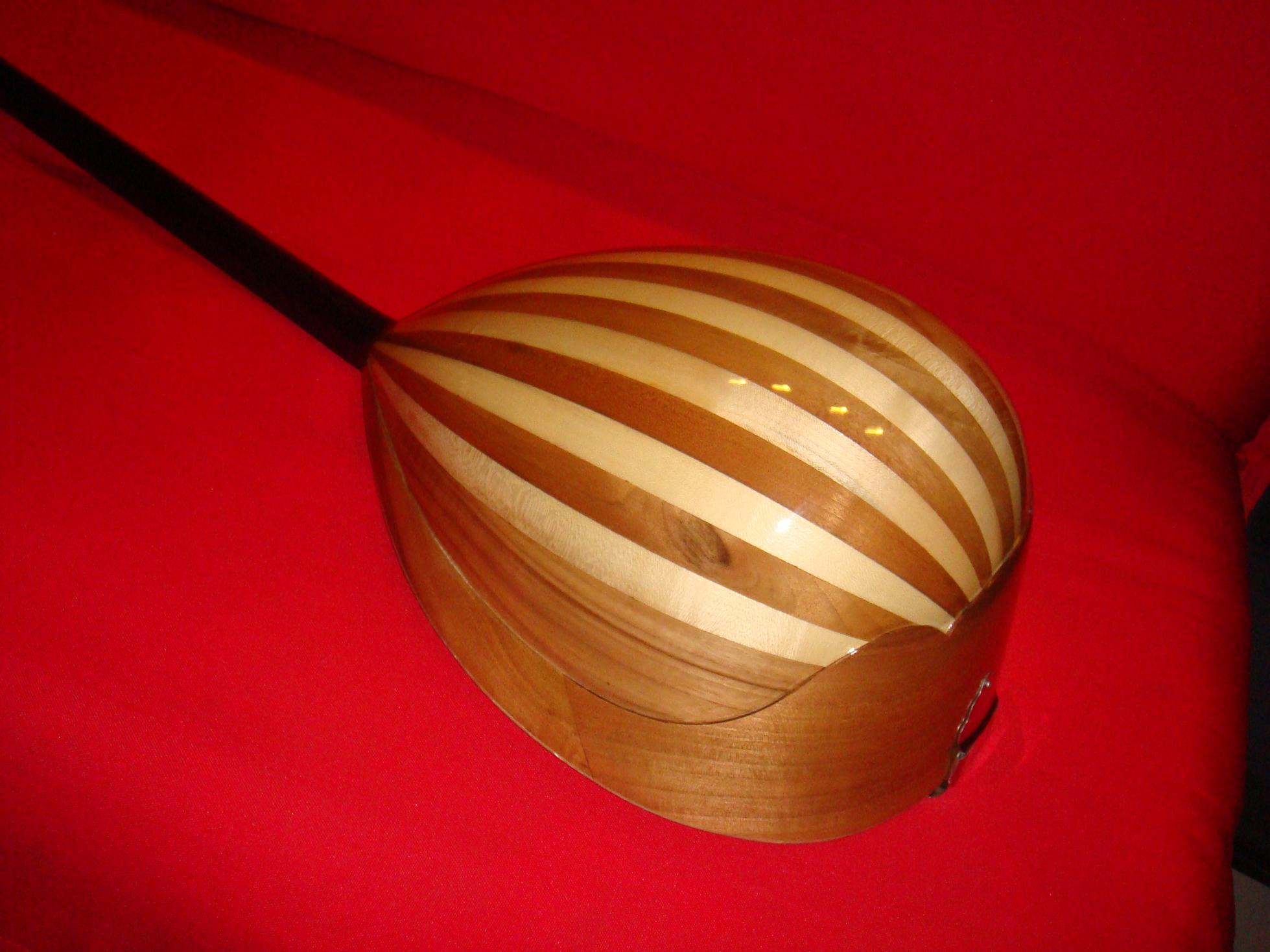 A back picture of a 3-string (trichordo/τρίχορδο) bouzouki.